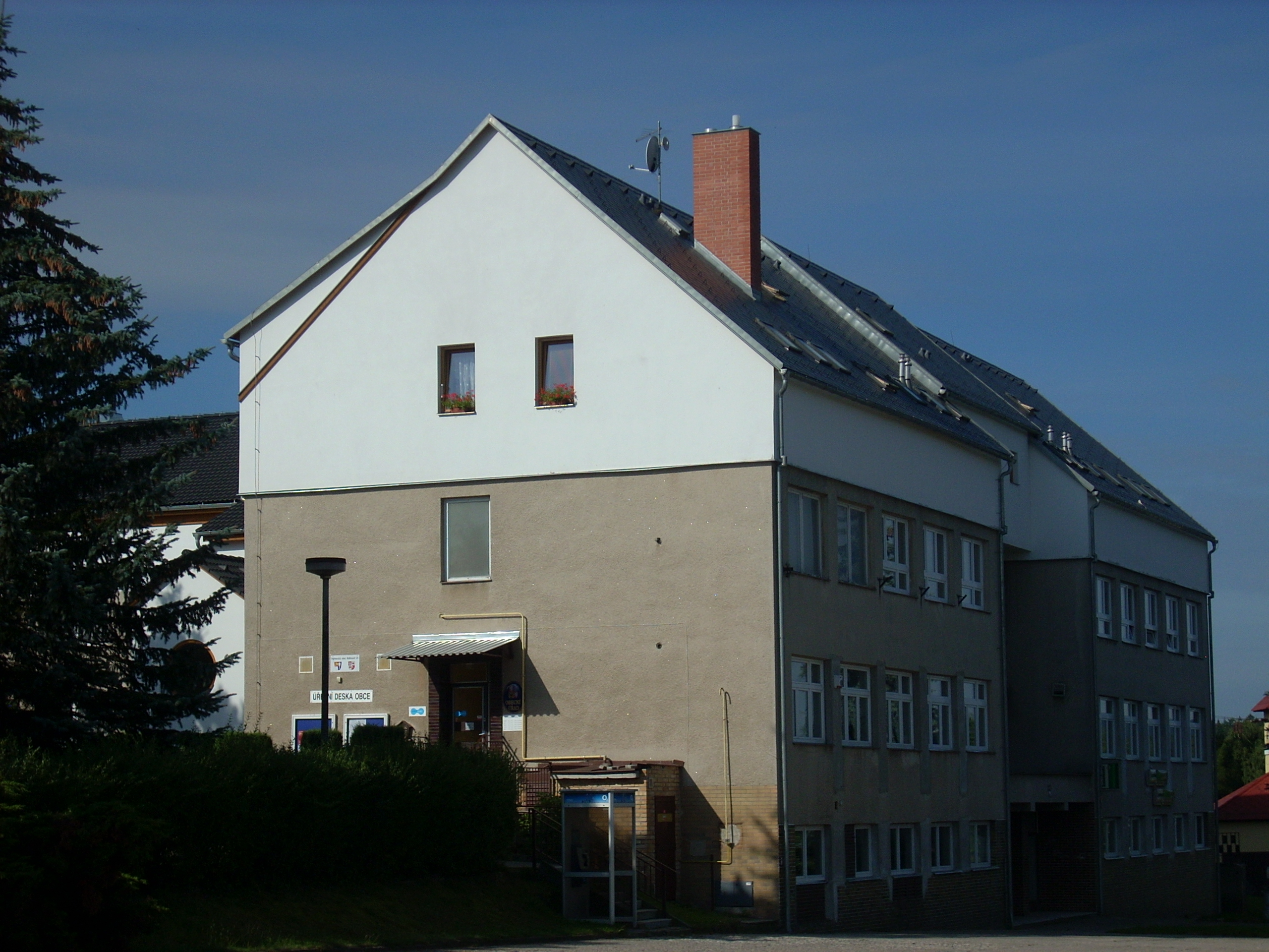 Dobronín, municipal authority